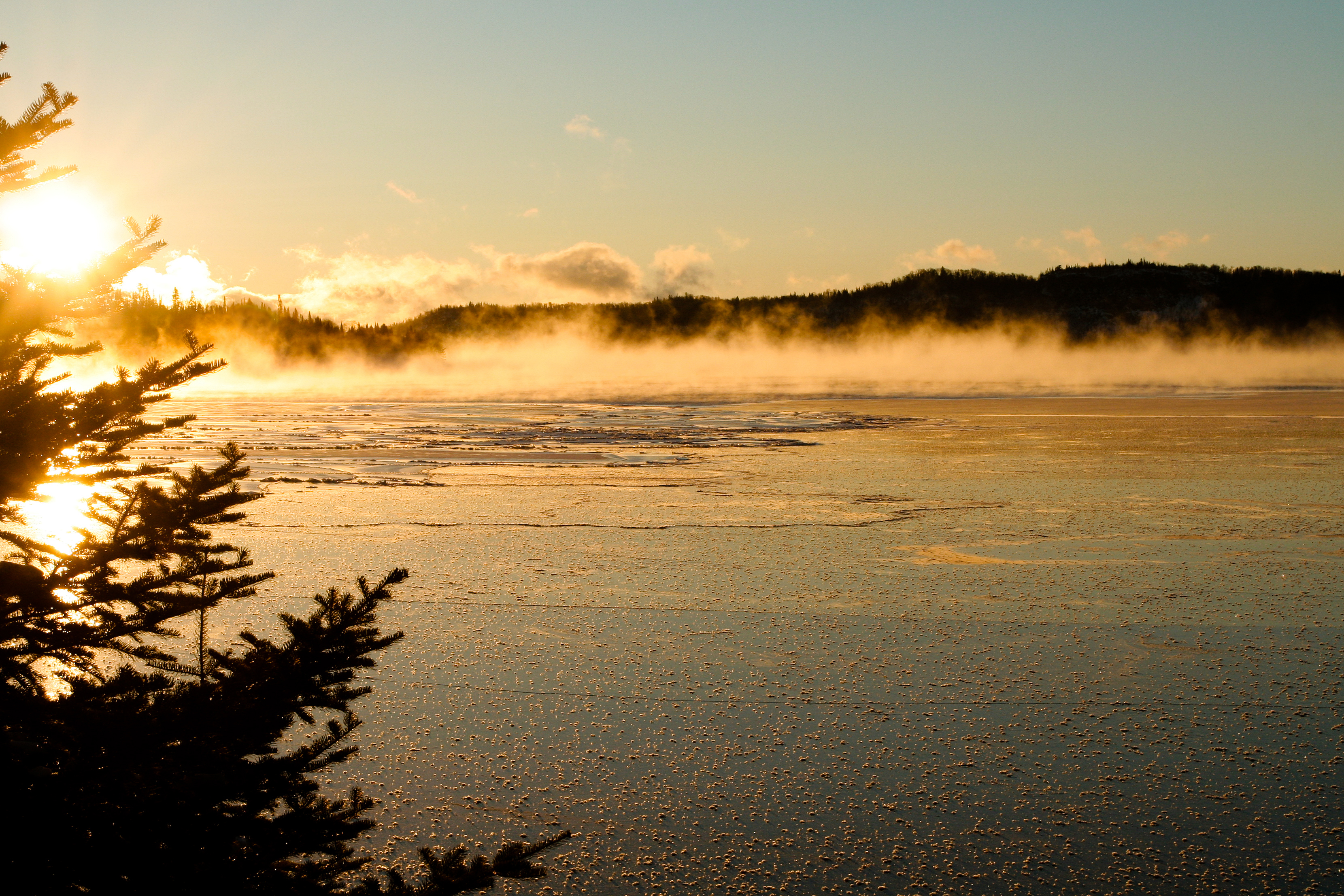 Winter Conflagration